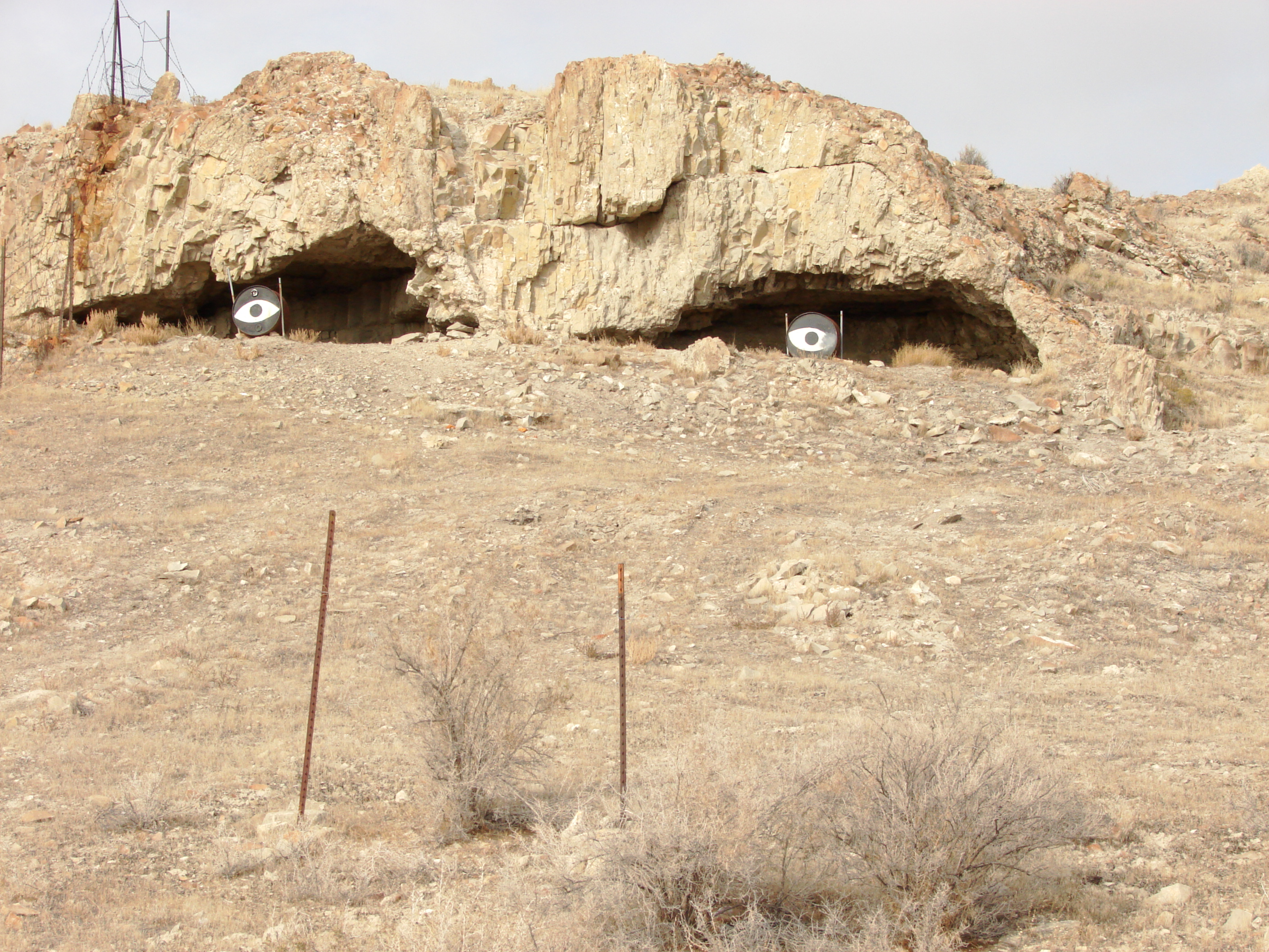 An interesting creation along Interstate 80 in northwestern Utah Utah, just east of the Delle interchange (Exit 70), that is readily visible for the westbound traffic, November 2007